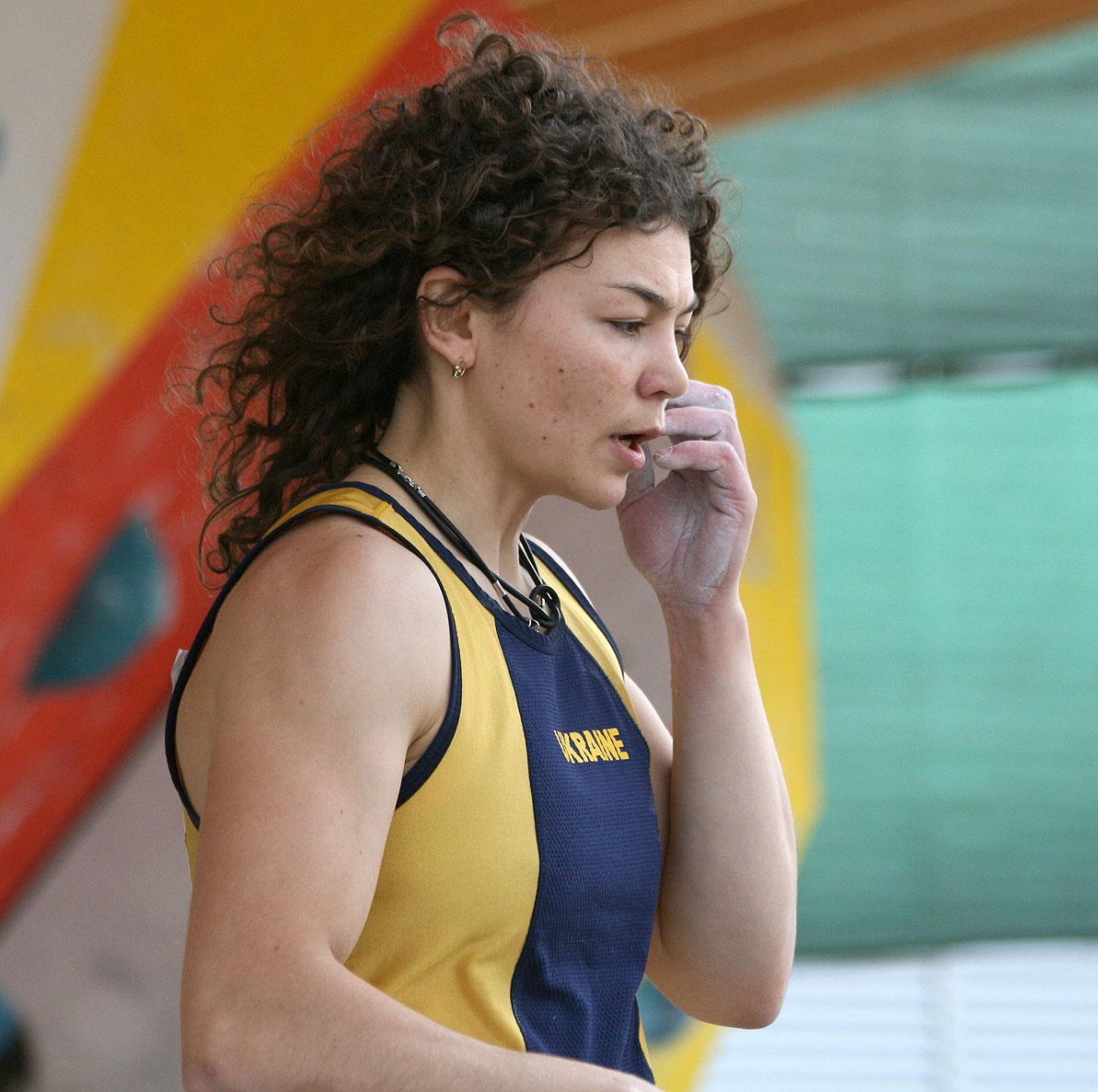 Olga Shalagina during the semi-finals at the IFSC Boulder Worldcup Vienna 2010.